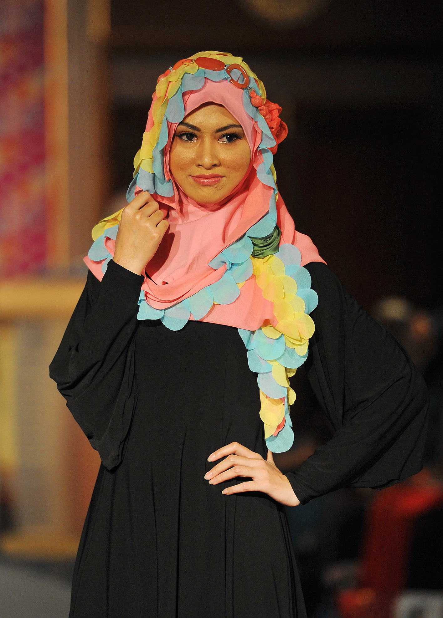 Kuala Lumpur,14/10/2012. Moslema in style fashion show at PWTC. (repoter sophia) Pic Firdaus Latif